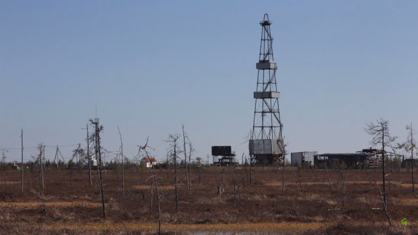 Komi Republic oil pollution, traditional Izhma territories